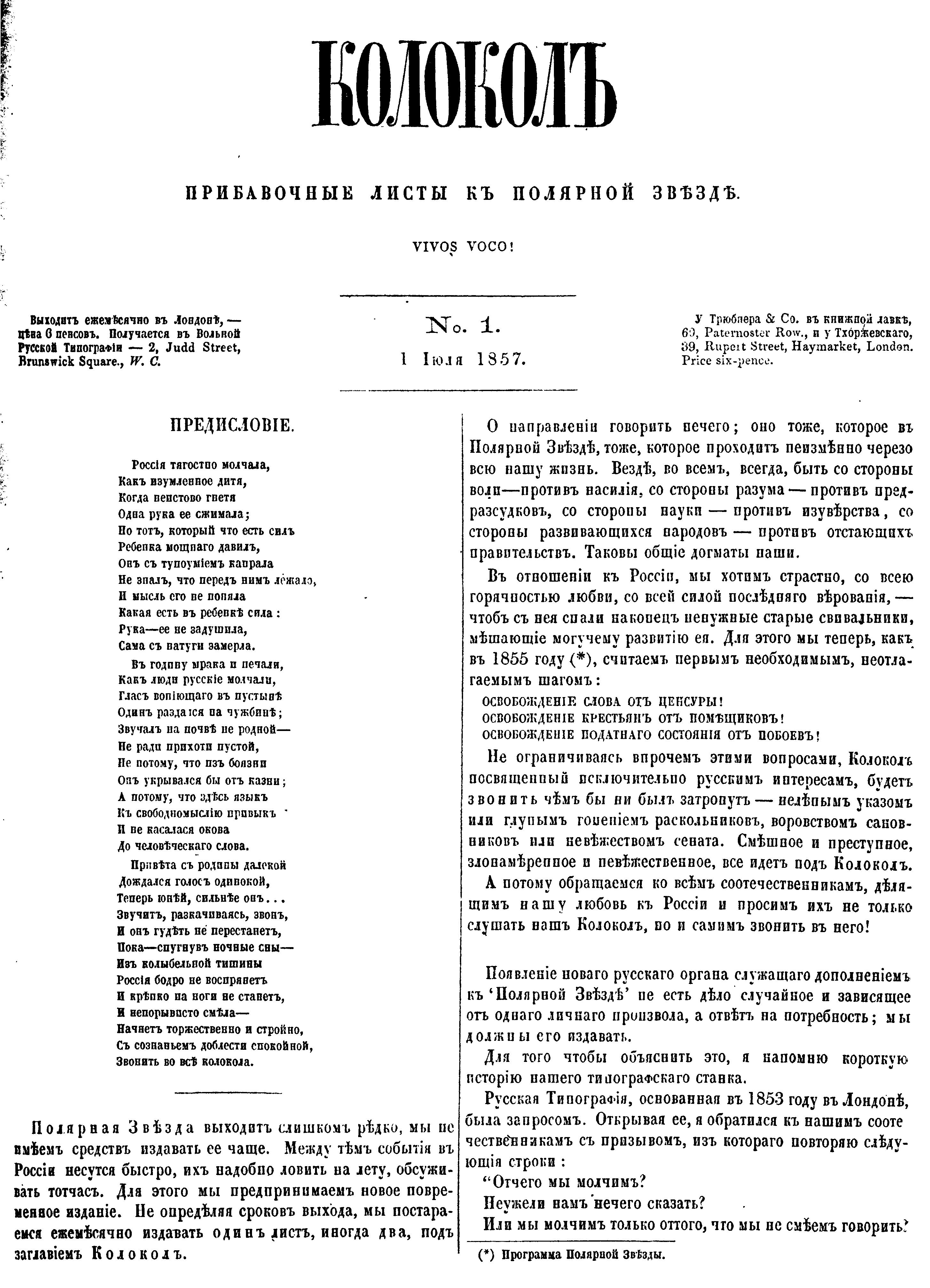 The title page of issue "Kolokol" ("The Bell"), the exile-russian publication of Alexander Herzen and Nikolay Ogarev. London, 1857.